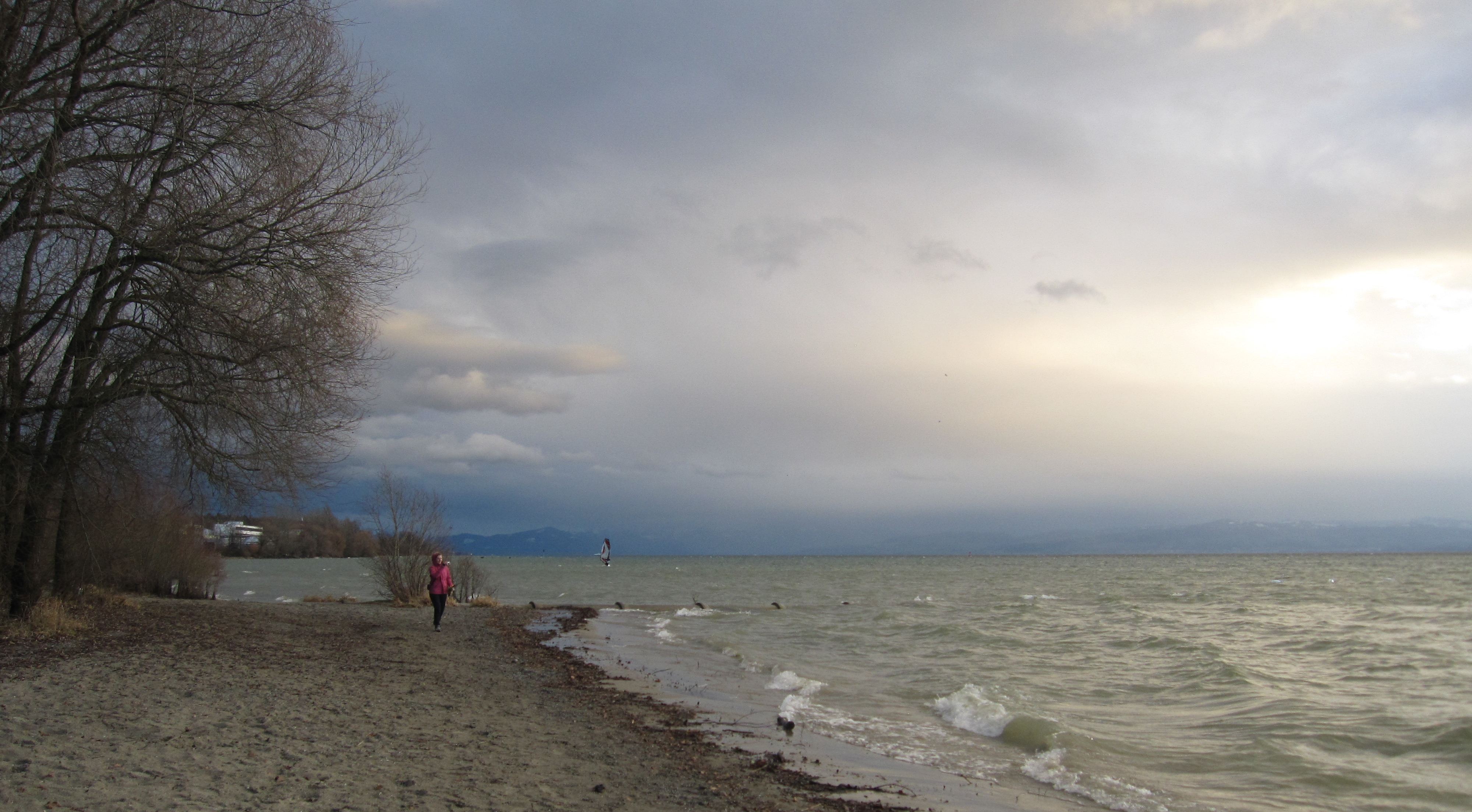 During the last two decades the beach area of this part of Lake Constance had been redesigned according to ecollogical criteria. Concrete walls along the beach had been removed; the shore had been flattened in order to enlarge the beach area as well as to strengthen the habitat function of the shallow water zone.